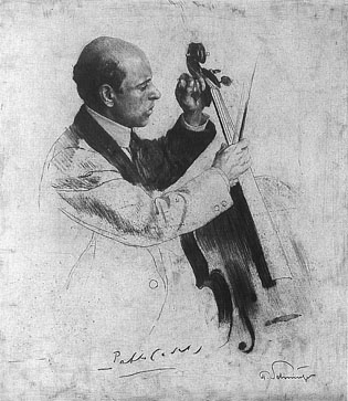 Engraved portrait of cellist Pau Casals (1876—1973)